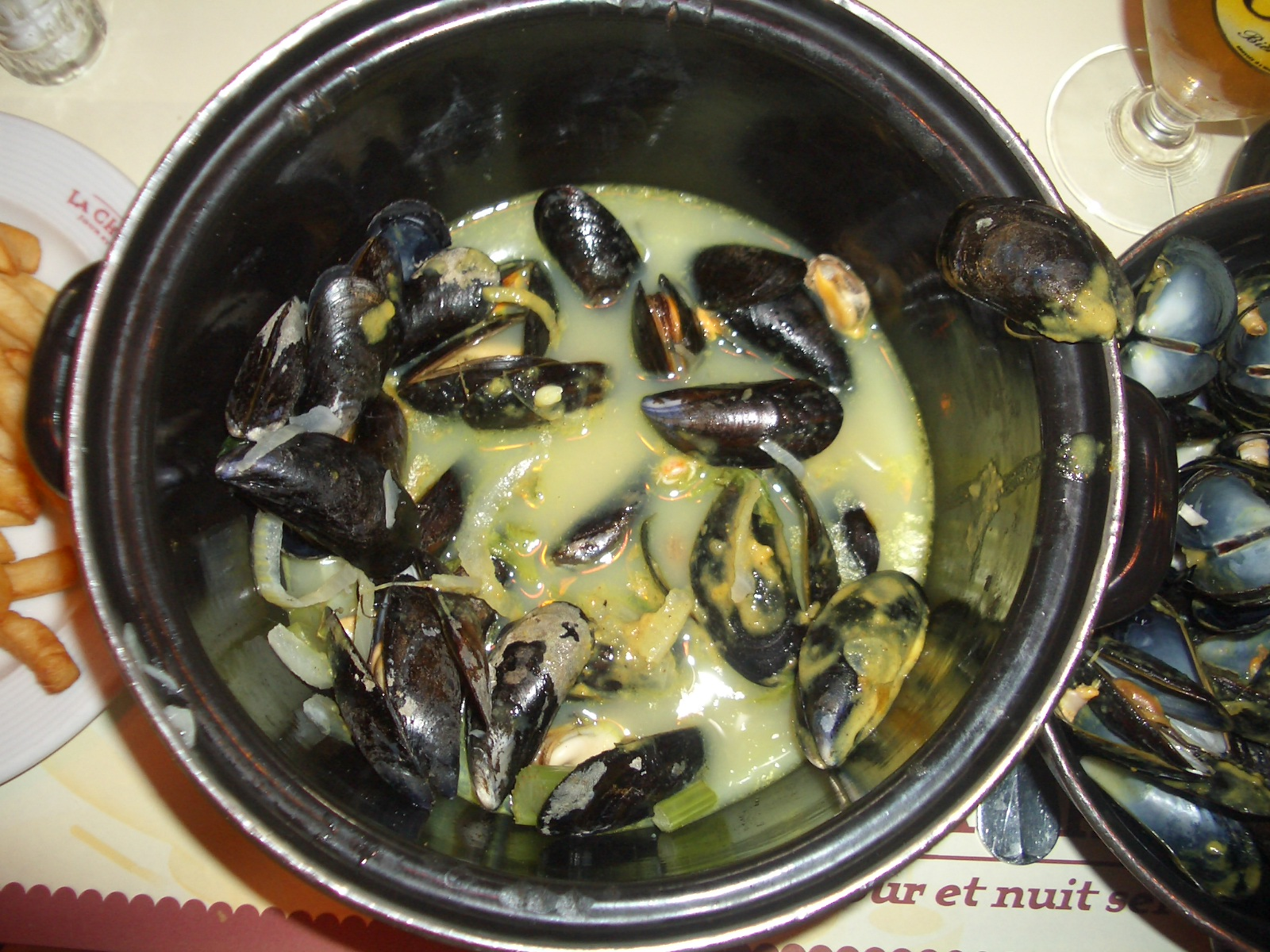 Photo of the french wikipédia's "bouffe" in Lille on 30 august 2006. Typical mossels ;)